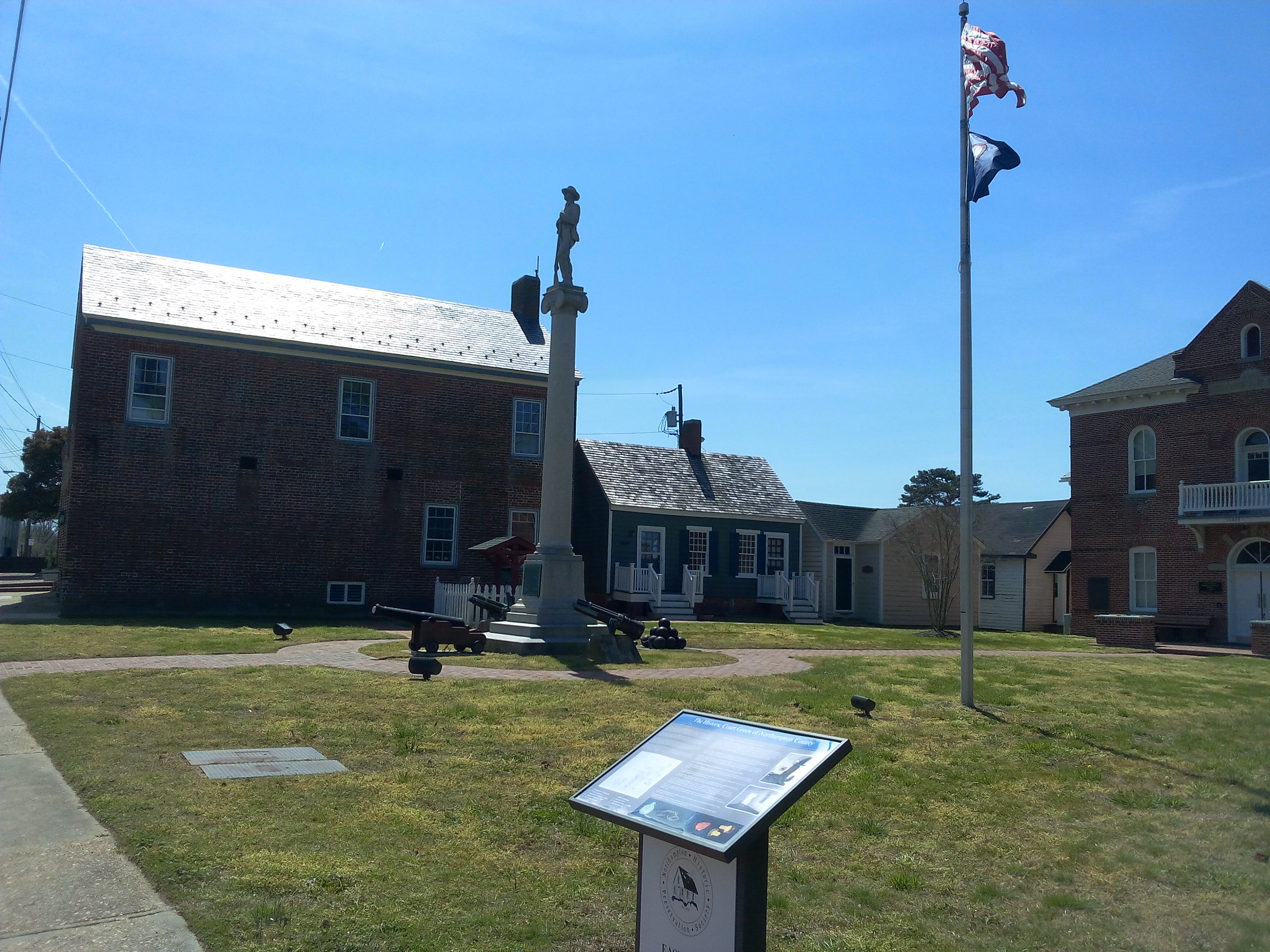 taken from near Debedeavon Monument Other information Confederate monument surrounded by memorials to other war dead